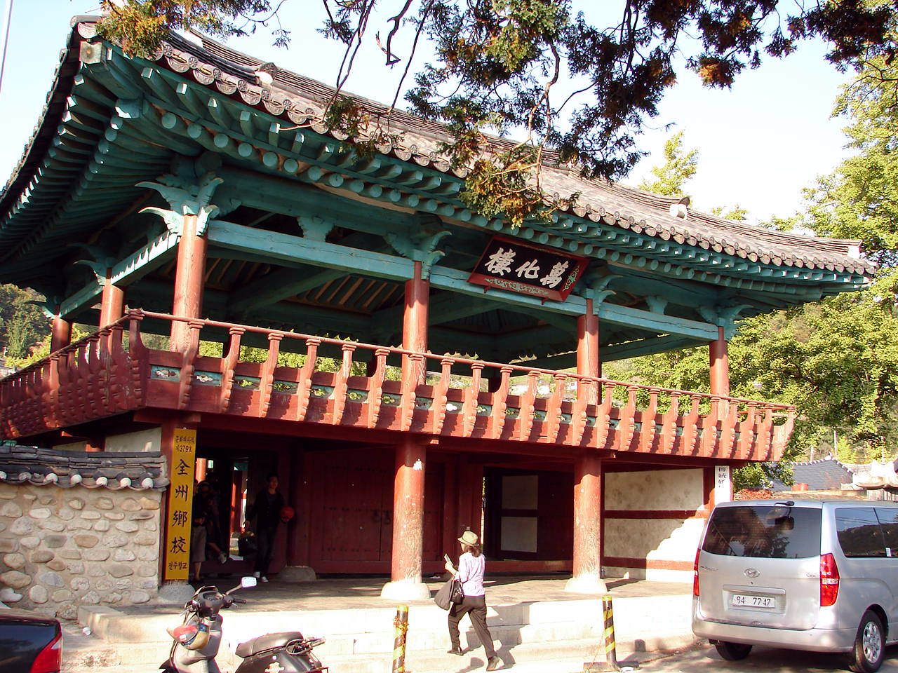 Entry to the Jeonju Hyanggyo, a Confucian school that was established during the Joseon Dynasty (1392-1910) and was rebuilt at its present Jeonju site in 1603. Designated National Treasure No. 379.